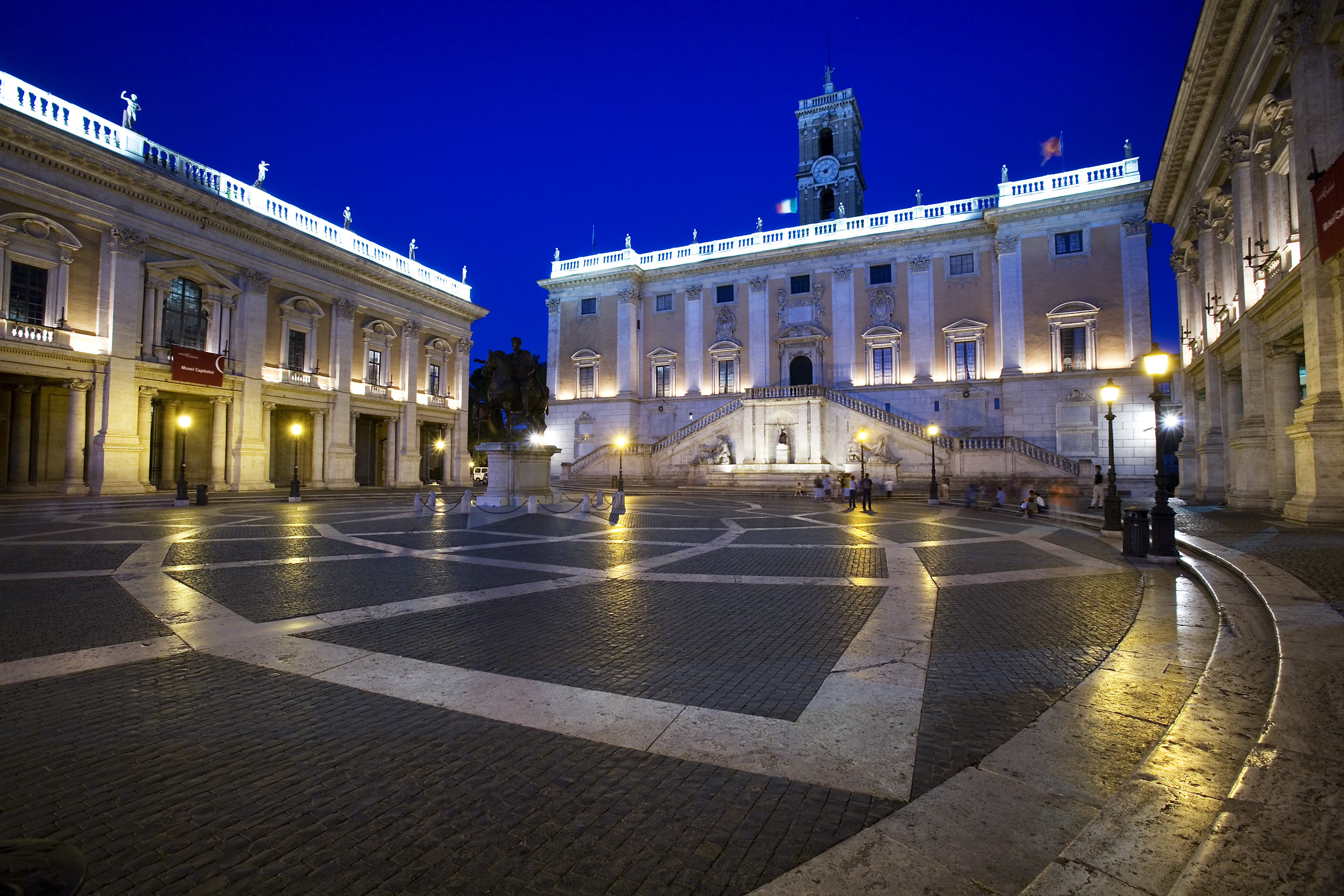 Piazza del Campidoglio or Campidoglio square, Rome, Italy